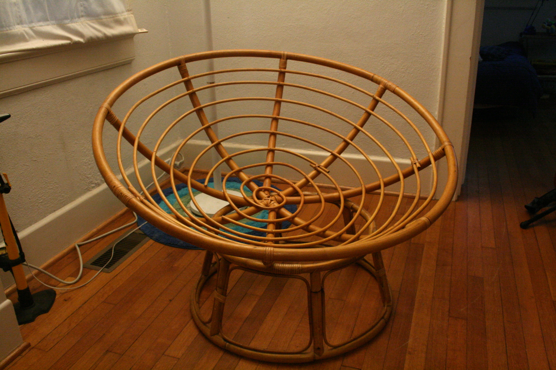 Papasan chair without a cushion.